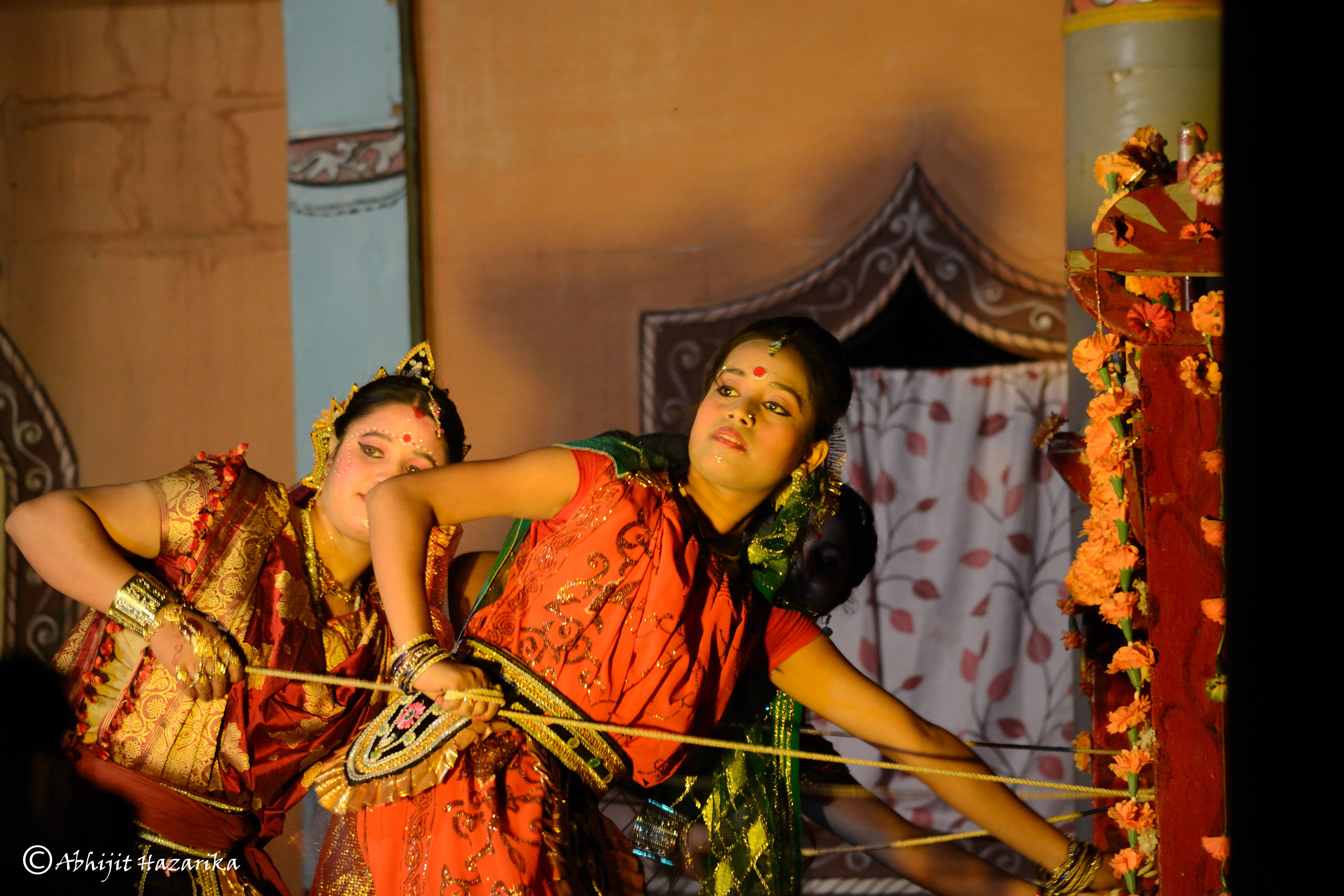 A glimpse of Raas Mahotsav in Majuli, Assam